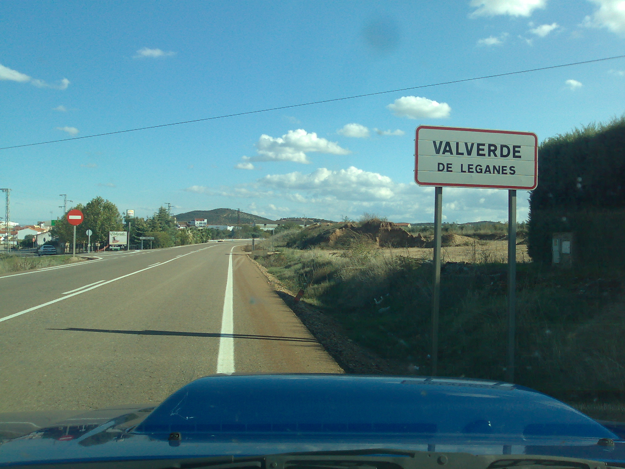 Valverde de Leganés